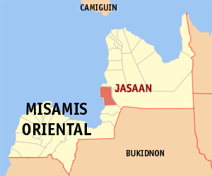 Map of the Misamis Oriental showing the location of Jasaan